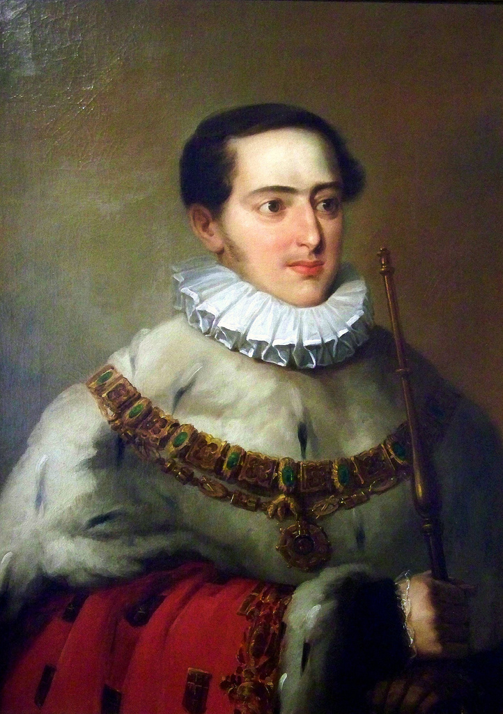 o rei